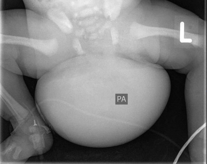 Pelvic X-ray of neonate with coccygeal teratoma